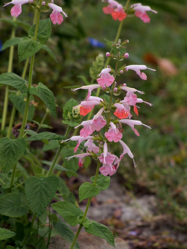 herb, cultivated leaves are soft, velvety with strong aroma. Location: Brisbane, Australia ID credit to mmmavocado